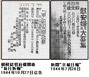 Newspaper advertisements for recruitement of comfort women for the Japanese Imperial Army.